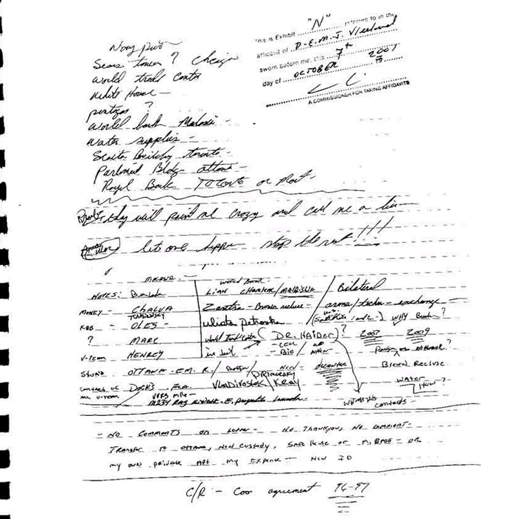 Delmart Vreeland note which listed a number of targets such as the Sears Tower, World Trade Center the White House and The Pentagon. The note also said: "Let one happen. Stop the rest!!!" (the notes which were in an evidence locker on the morning of September 11)